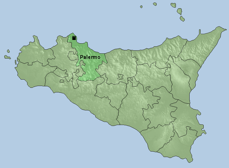 Map of the archdiocese of Palermo (^^: Cathedral of a metropolitan diocese, –^: Cathedral of a suffragan diocese, ^–: Co-cathedral)